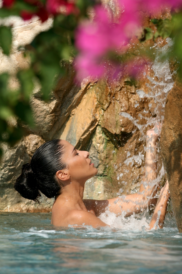 Le Meridien Limassol Spa & Resort, Cyprus hotels - Outdoor Thalassotherapy Pool.